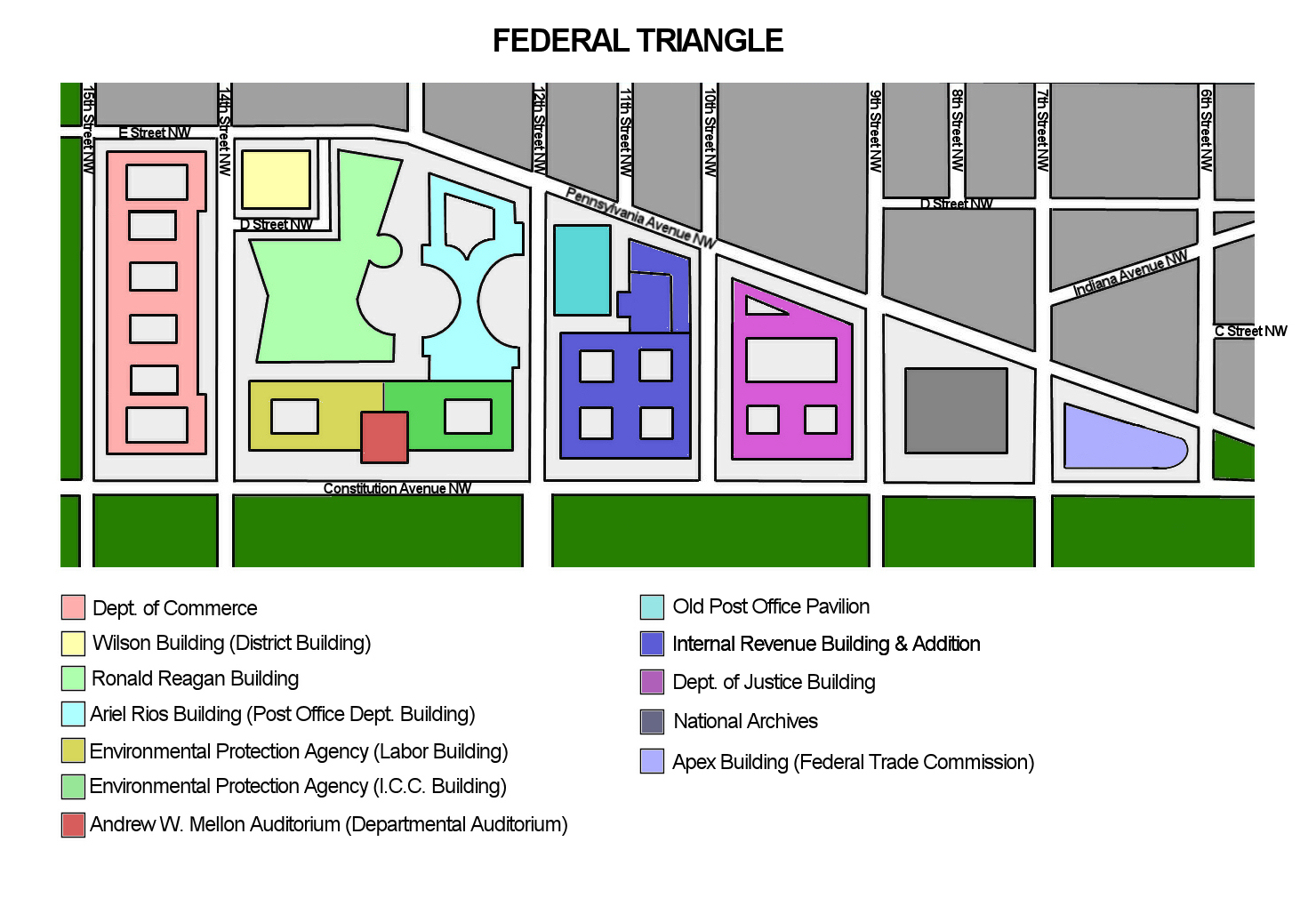 Diagram of the Federal Triangle area of Washington, D.C., as of December 2009. Each of the federal government buildings in the area is color-coded and described according to the diagram legend.